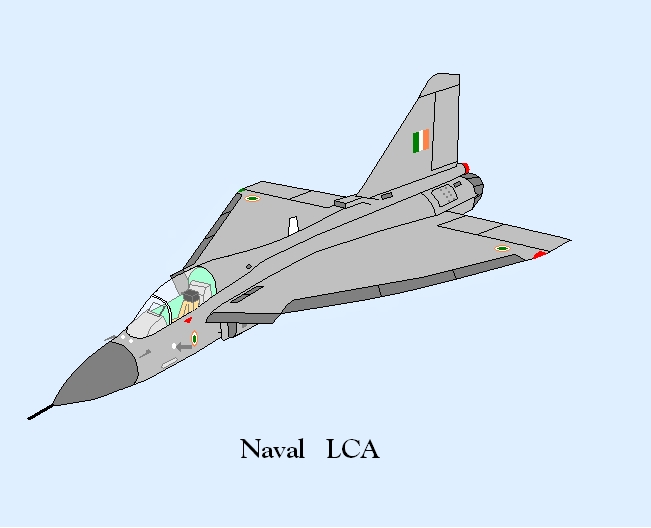 Conceptual drawing of the Naval LCA